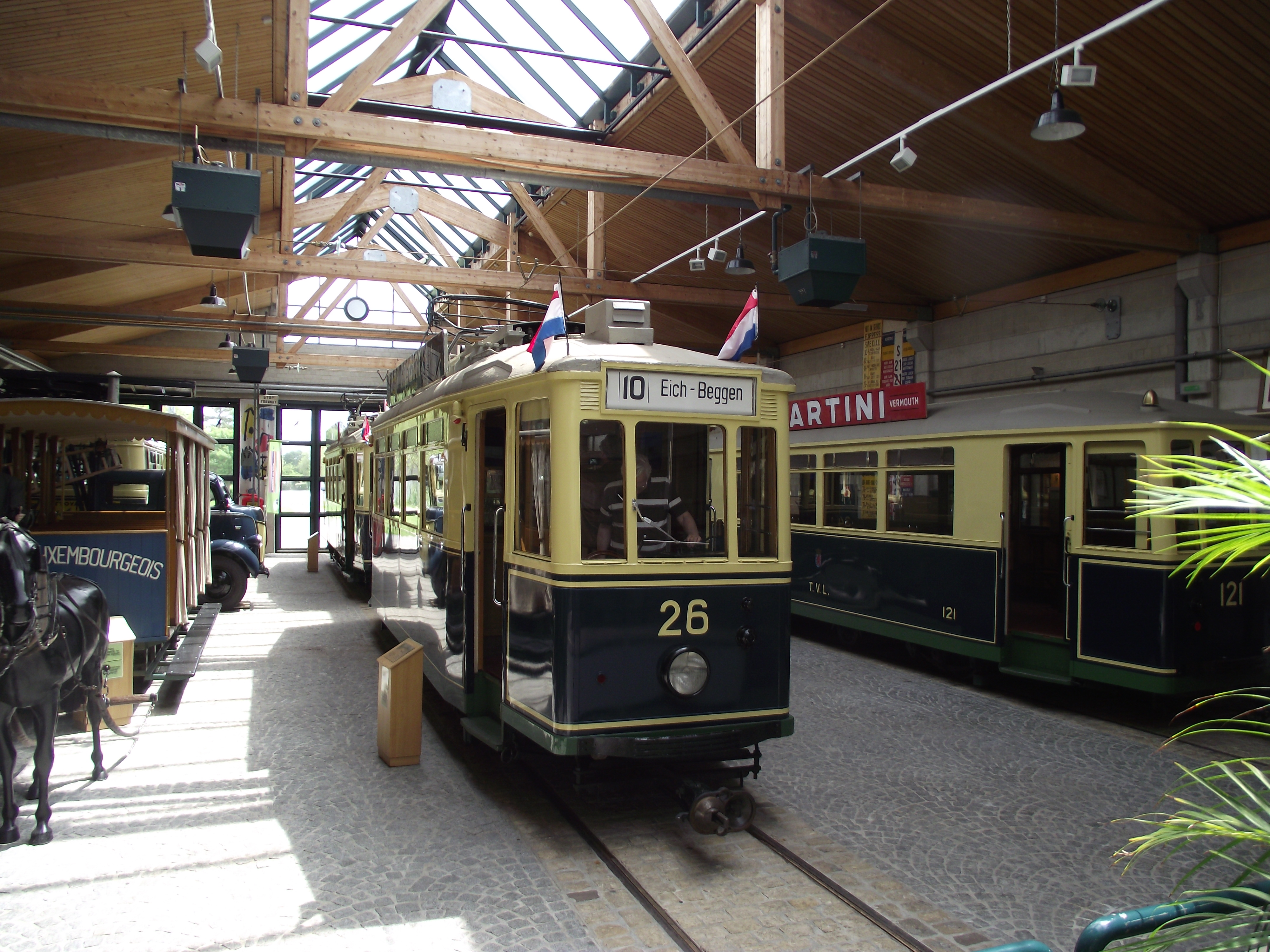 Trammuseum of Luxemburg